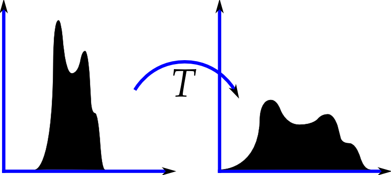 Schematic diagram of histogram spreading. Note that a pure histogram spreading implementation would only spread the levels across the domain (width of the histogram), without changing their frequencies (height of the histogram)